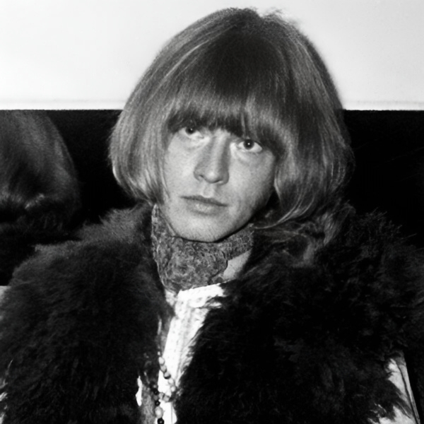 Brian Jones from The Rolling Stones at Concertgebouw in Amsterdam, September 1, 1967. This is a detail and retouched version of the original image from the Nationaal Archief. It was taken during a meeting with Maharish Makesh Yogi.